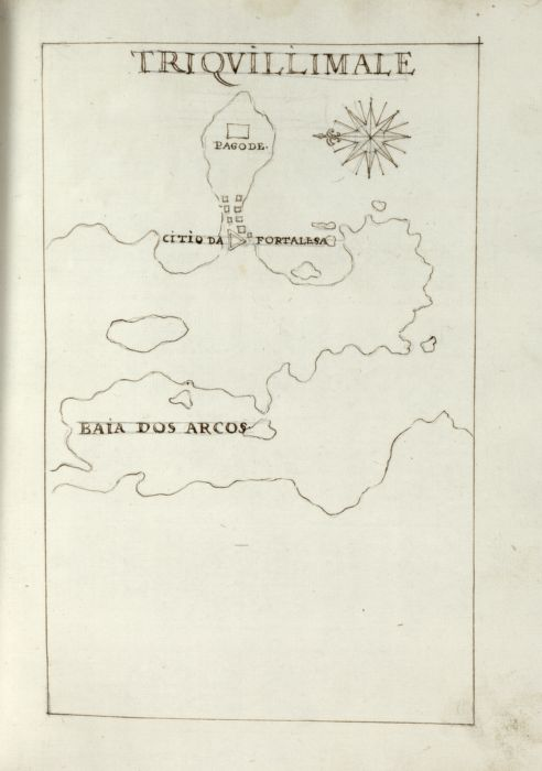 A drawing by Constantine de Sa de Noronha between 1622-1624 depicting the position of one of the Koneswaram temples of the Trincomalee Koneswaram Kovil Compounds on Swami Rock, along with what appears to be the initial fortification of Trincomalee and what would become Fort Frederick. From Plantas das fortalezas, pagodes & ca. da ilha de Ceilão